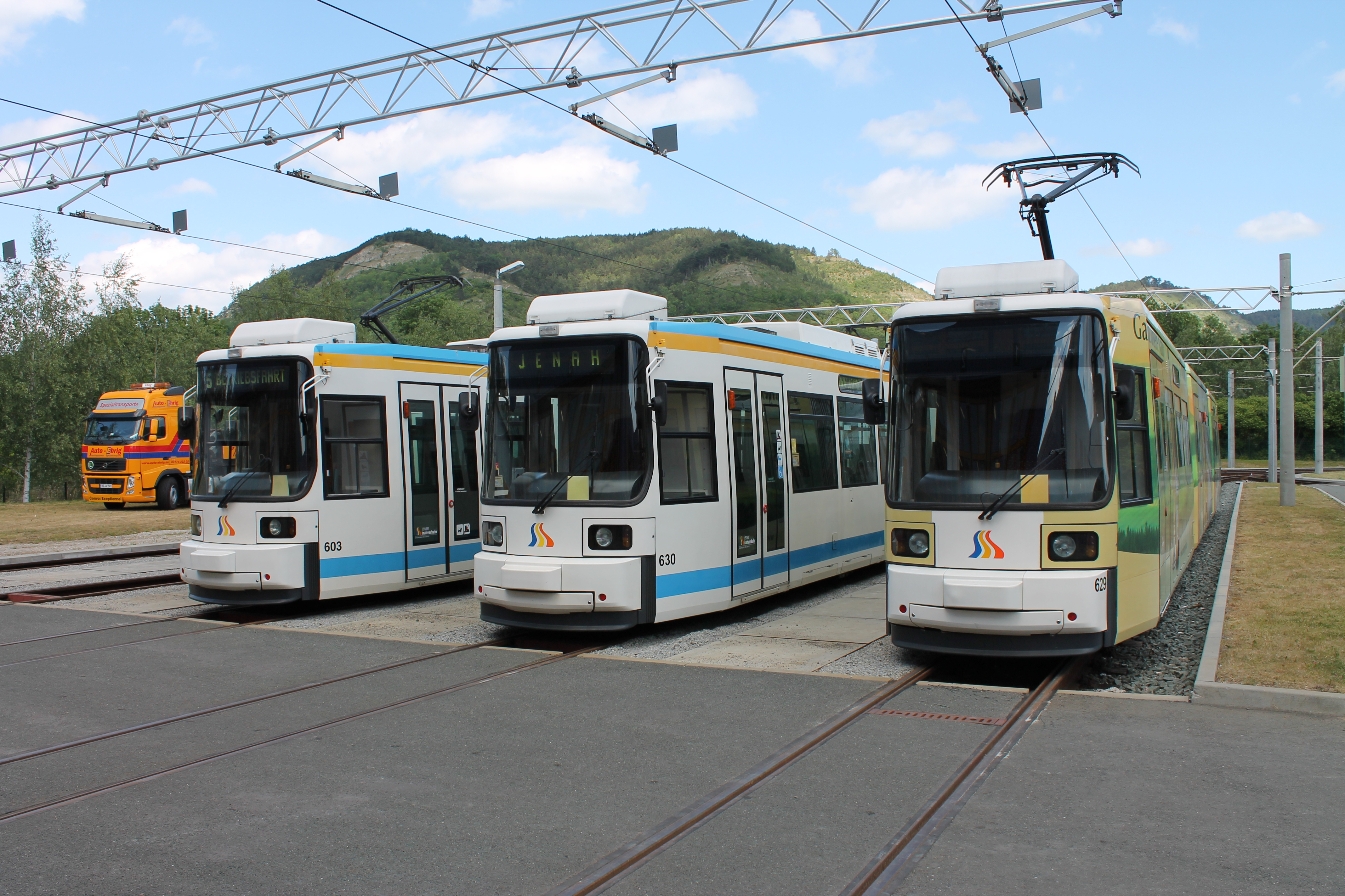 GT6M-ZR trams in June 2012 at the 111st anniversary of the Jena transport company.